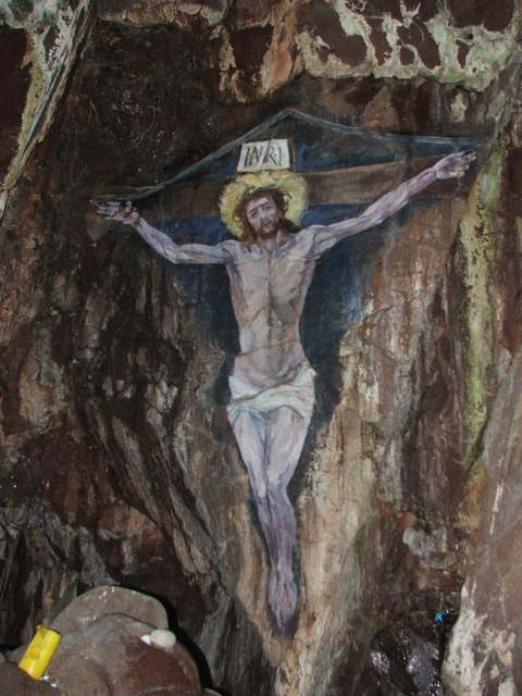 Cave Painting, Island Davaar. About a quarter of the way around the island (counter clockwise) this painting by Archibold MacKinnon is to be found. Painted in 1887 and surrounded by numerous crosses fashioned from driftwood.